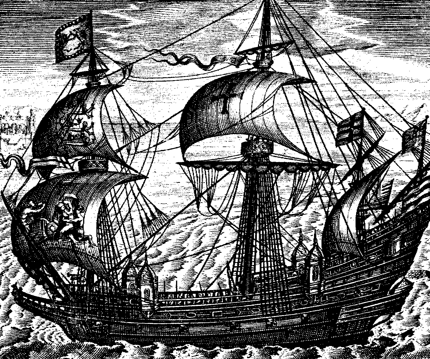 The Ark Royal (1587), by Claes Janszoon Visscher (Claes Jansz Visscher), (1587-1652) The galleon 'Ark Raleigh' was built at Deptford for Sir Walter Raleigh in 1587. The following year she was commissioned into the Royal Navy and re-named the 'Ark Royal'. She was the Lord High Admiral's flagship against the Spanish Armada in 1588. The vessel was 100 feet long on the keel, had a beam of 37 feet and carried 44 guns. Source: National Maritime Museum, London